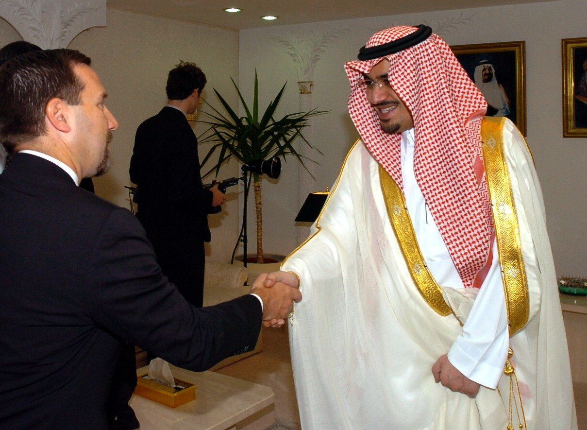 I'm part of a group of businessmen visiting Saudi Arabia to work out the details for a partnership between the World Olympian magazine and the Saudi Arabian Olympic Committee. This afternoon we met with HRH Prince Nawaf, the Vice President of the committee. His Royal Highness' full name is Prince Nawaf Faisal Fahd Abdulaziz, the nephew of the King.